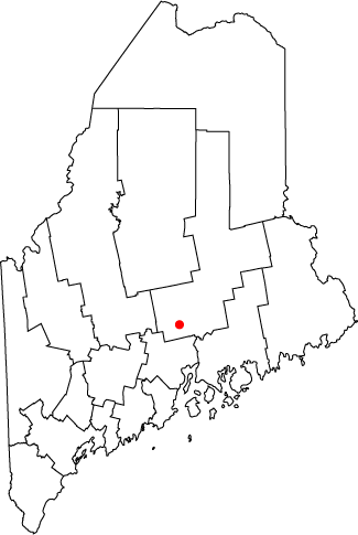 Map of the state of Maine with County Outlines, highlighting the city of Brewer.